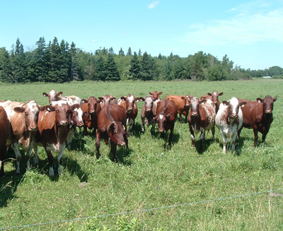 added by Ryan Barrett